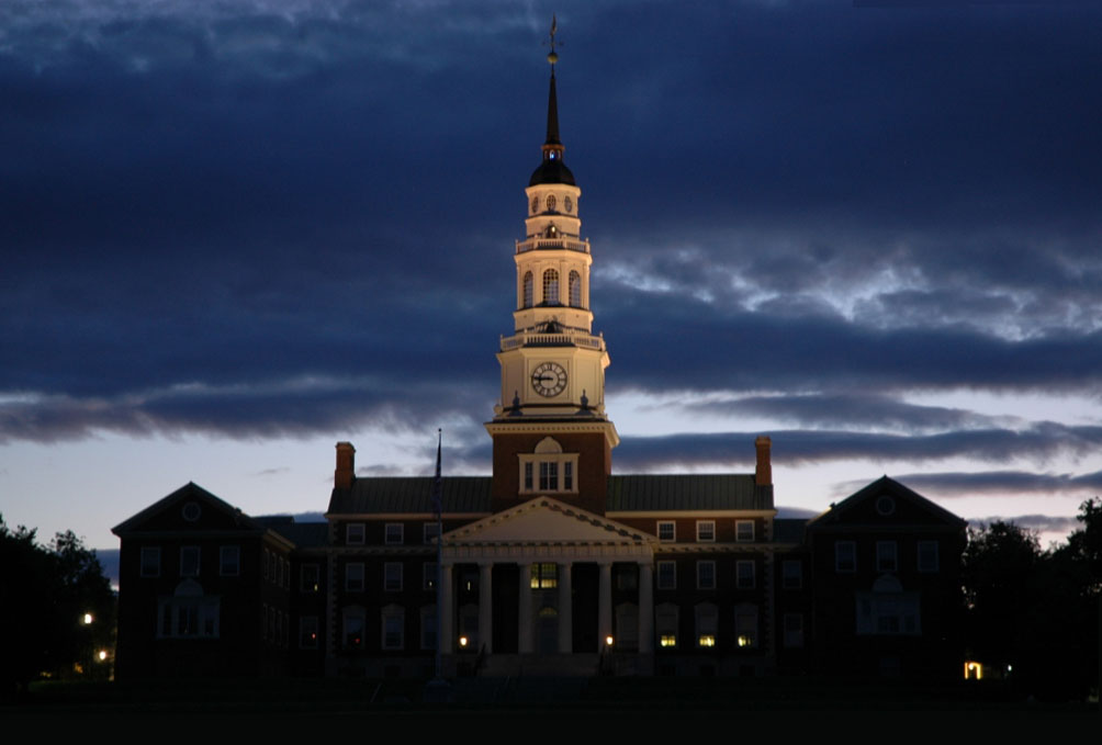 Miller Library, Colby College